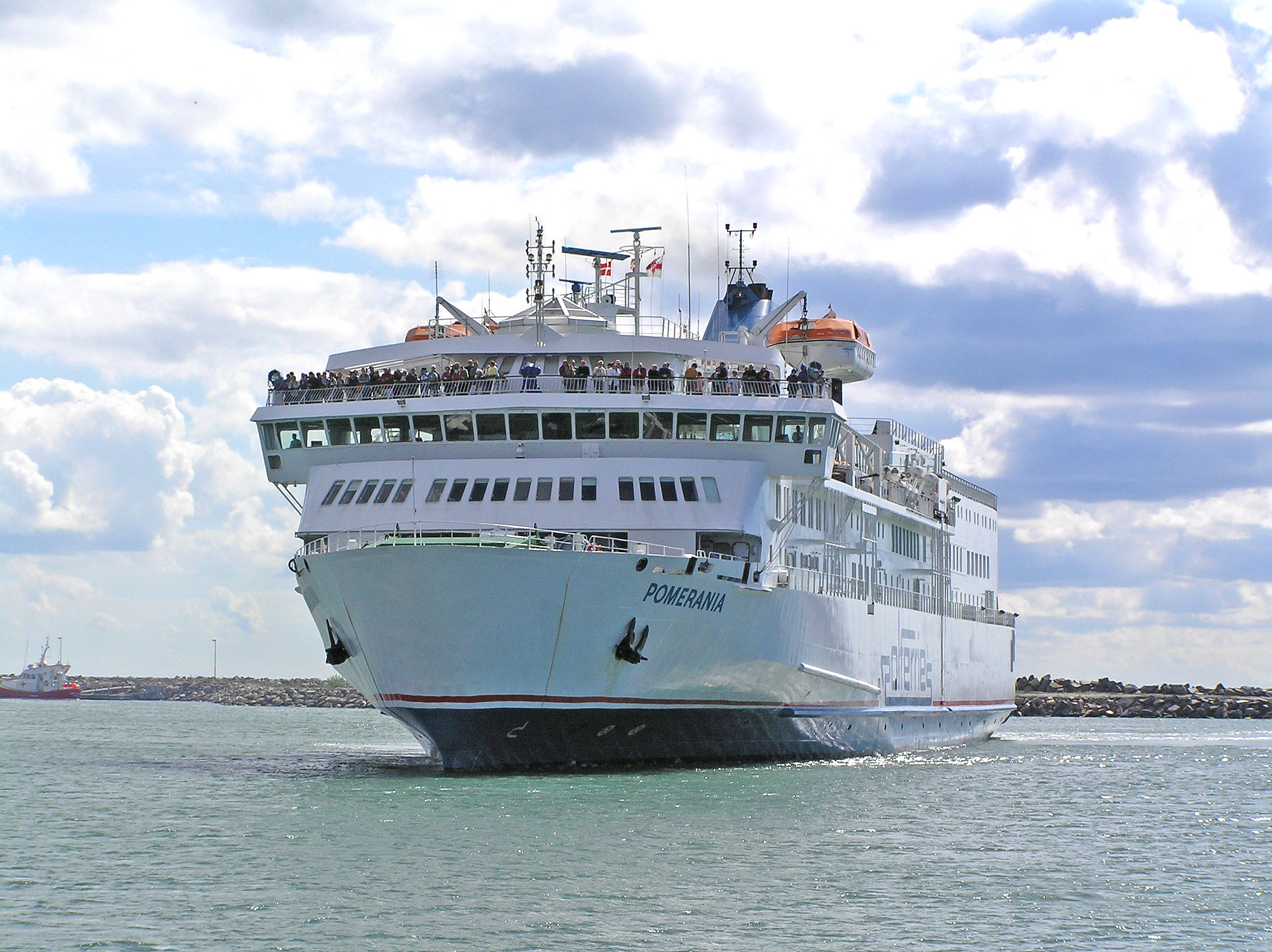 MF Pomerania in Rønne, Denmark IMO Number: 7516761 MMSI Number: 308079000 Callsign: C6RA9 Length: 127 m Beam: 22 m